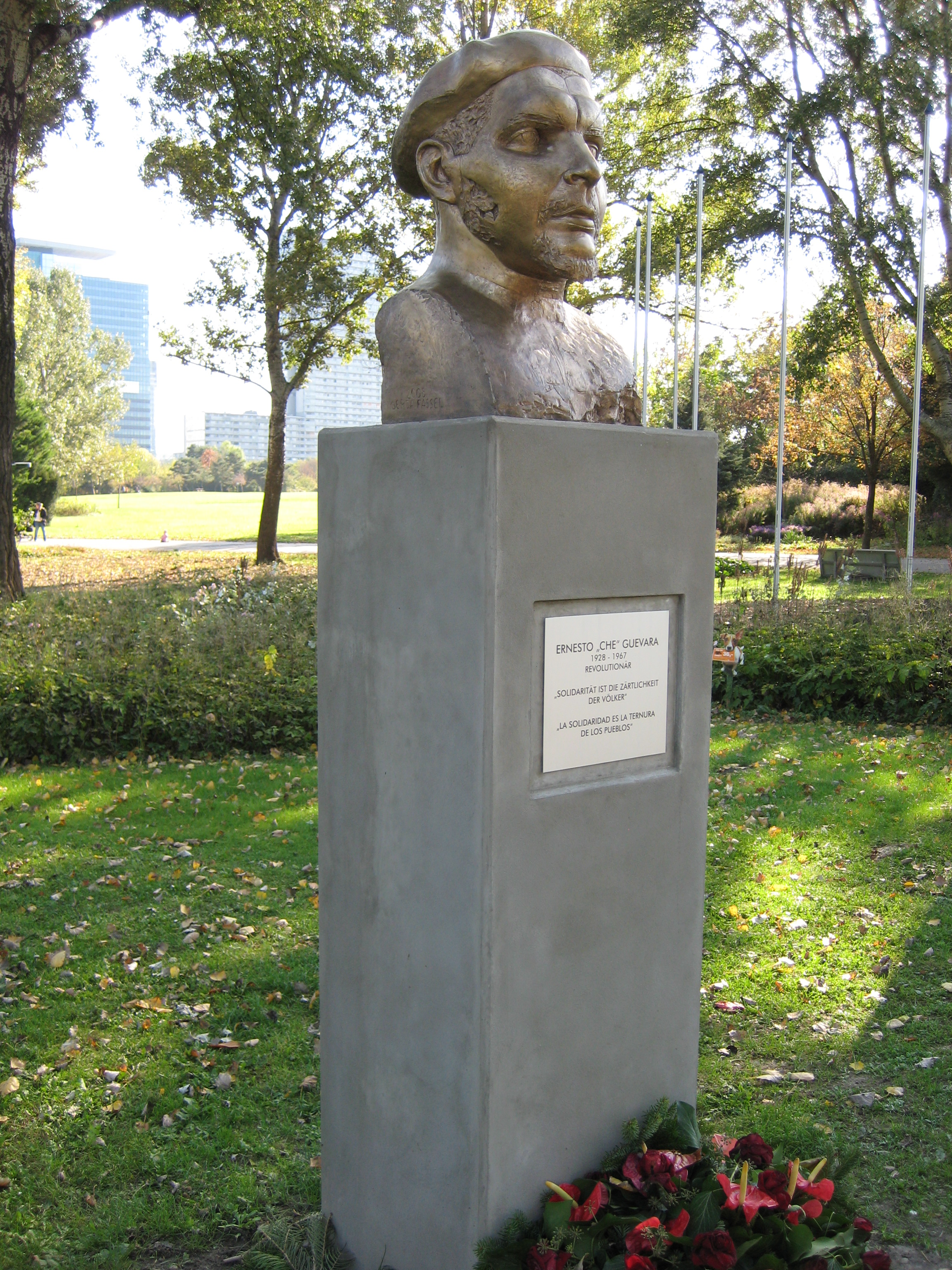 Statue of Che Guevara located at Donaupark (Vienna)